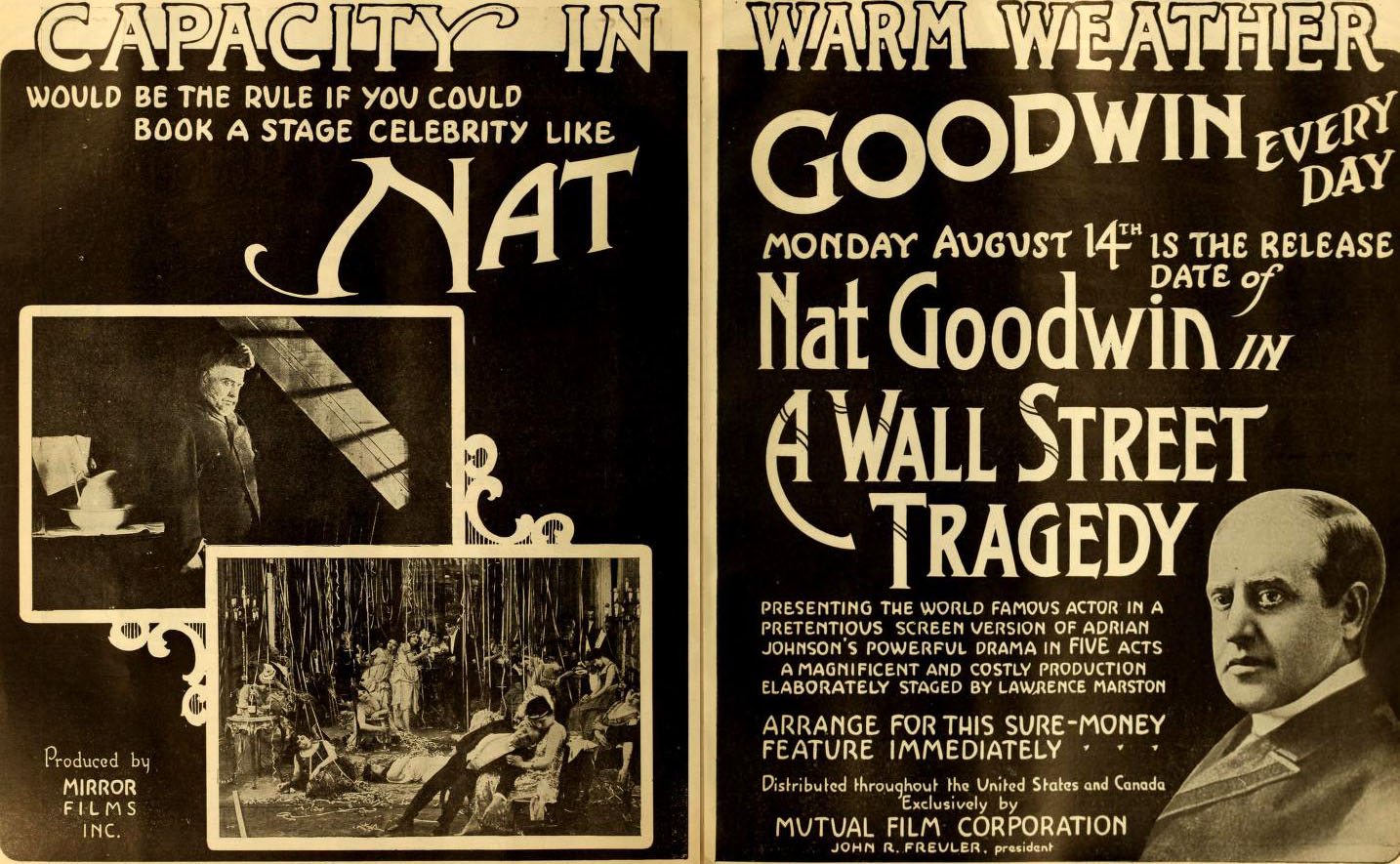 Advertisement in Moving PIcture World for the film A Wall Street Tragedy (1916).